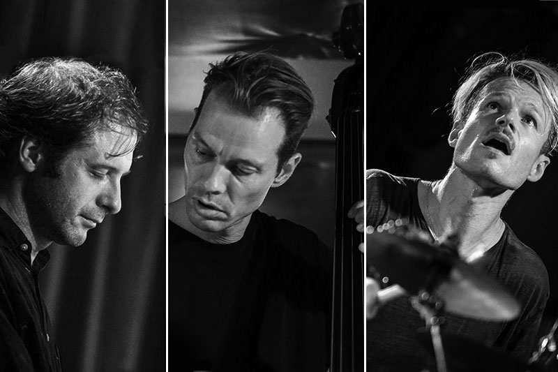 PHRONESIS: Ivo Neame (p), Jasper Høiby (b), Anton Eger (d) in Aarhus, Denmark 2018